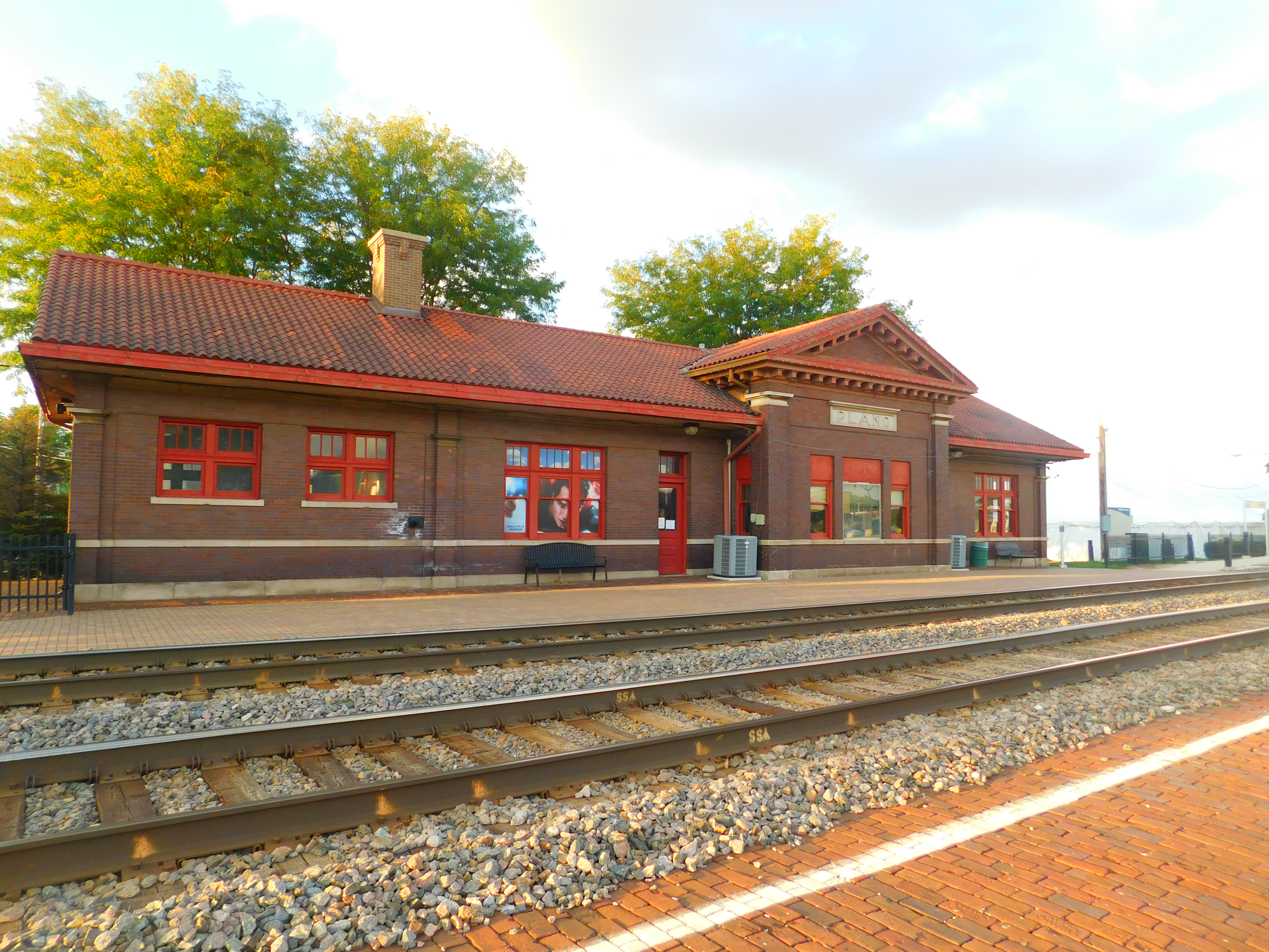 The Plano Amtrak station in Plano, Illinois.